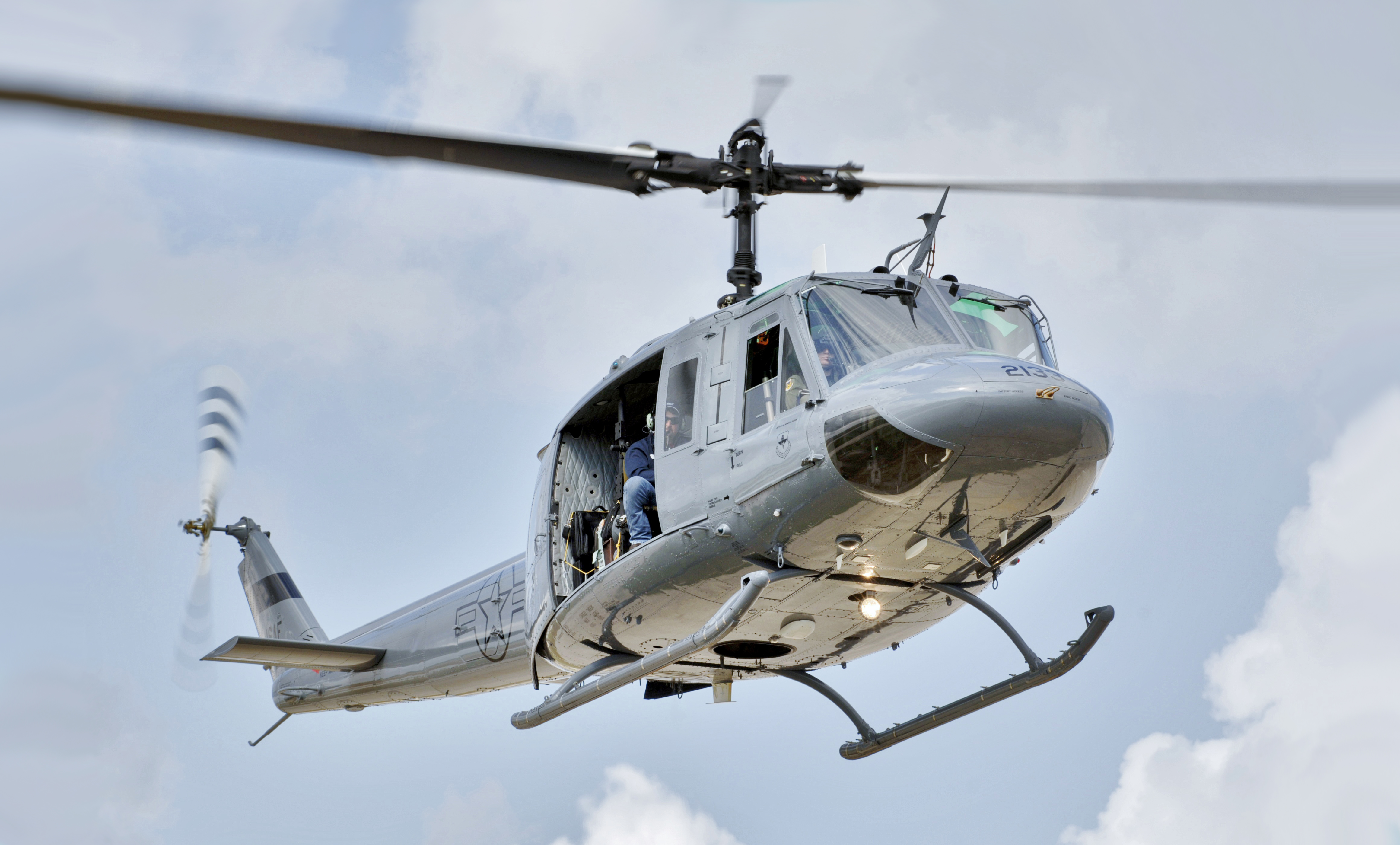 RANDOLPH AIR FORCE BASE, Texas -- Capt. John Beurer (right seat) pilots the TH-1H trainer helicopter with Jeff Cutrell, instructor pilot. This is the first of 24 TH-1H's that will be modified to train Air Force helicopter student pilots. TH-1H Huey II is the newest aircraft to join the Air Force inventory. (U.S. Air Force photo by Master Sgt. Lance Cheung)